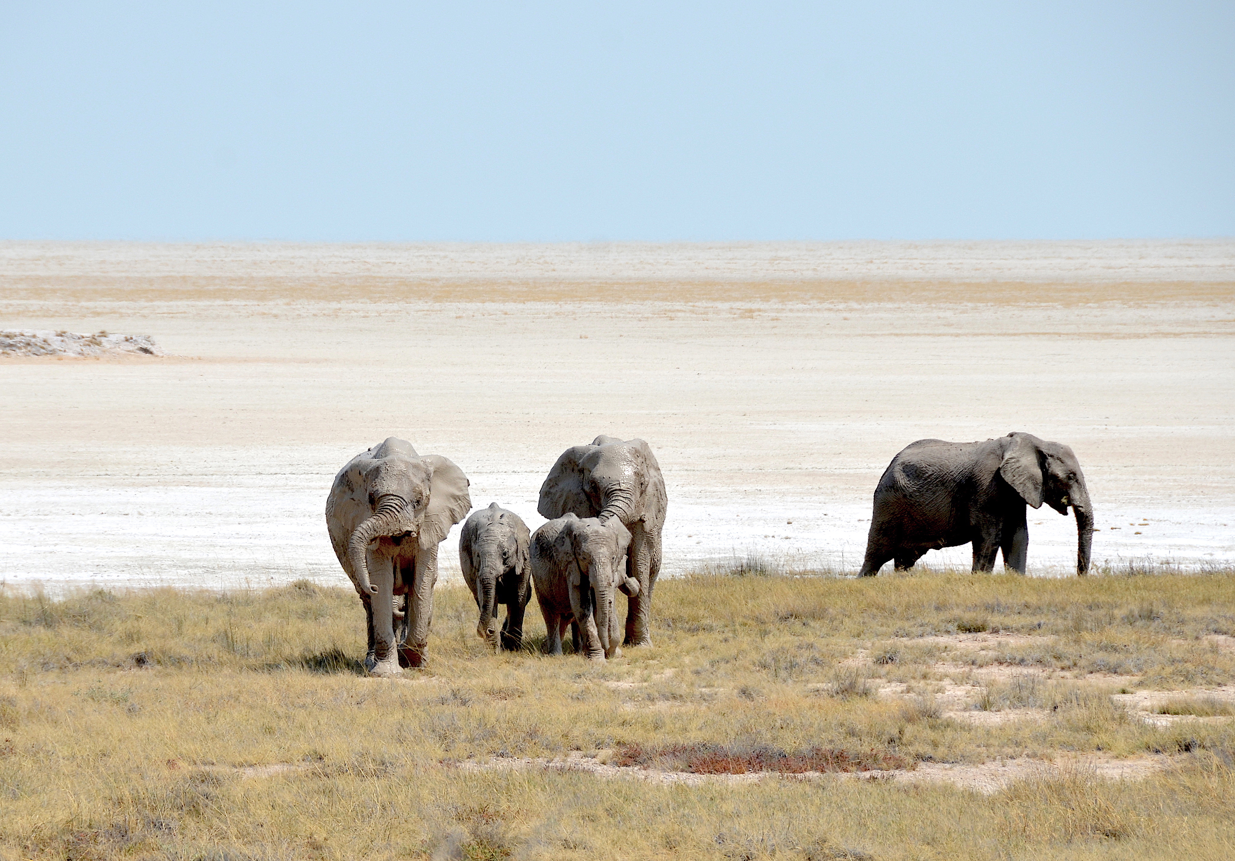 Elephants infront of Etosha pan in Namibia (2014)